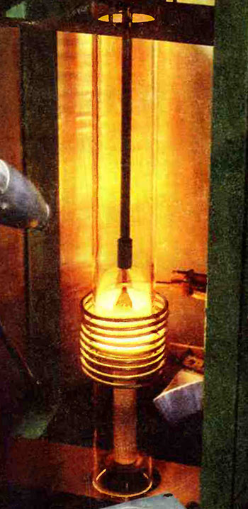 A silicon crystal being grown by the Czochralski process at the Raytheon Corp. semiconductor plant in Newton, Massachusetts, USA, in 1956 for use in the first silicon transistors. The transistor was invented in 1946, and the Czochralski process was first used to grow silicon crystals to make the first silicon transistors at Bell Labs in 1953, so this is one of the earliest silicon crystal production plants. The induction heating coil visible around the crucible carries a radio frequency current, and the heat induced melts the pure silicon in the crucible at a temperature of 2650°F. A seed crystal of solid silicon is attached to the rod and is lowered into the tube to touch the surface of the melted silicon. By carefully controlling the temperature distribution using the induction heater, the melted silicon is induced to crystallize on the seed, adding to the crystal. The seed is slowly pulled up from the melt, and the silicon freezes onto the end, creating a solid rod of monocrystal silicon. Here the process has just begun, and the tapered end of the crystal is visible just below the rod. In this early device the silicon crystal was only 1 inch wide. Alterations to image: Cropped out most of magazine cover, rotated image by a few degrees CCW to compensate for camera angle and show apparatus upright